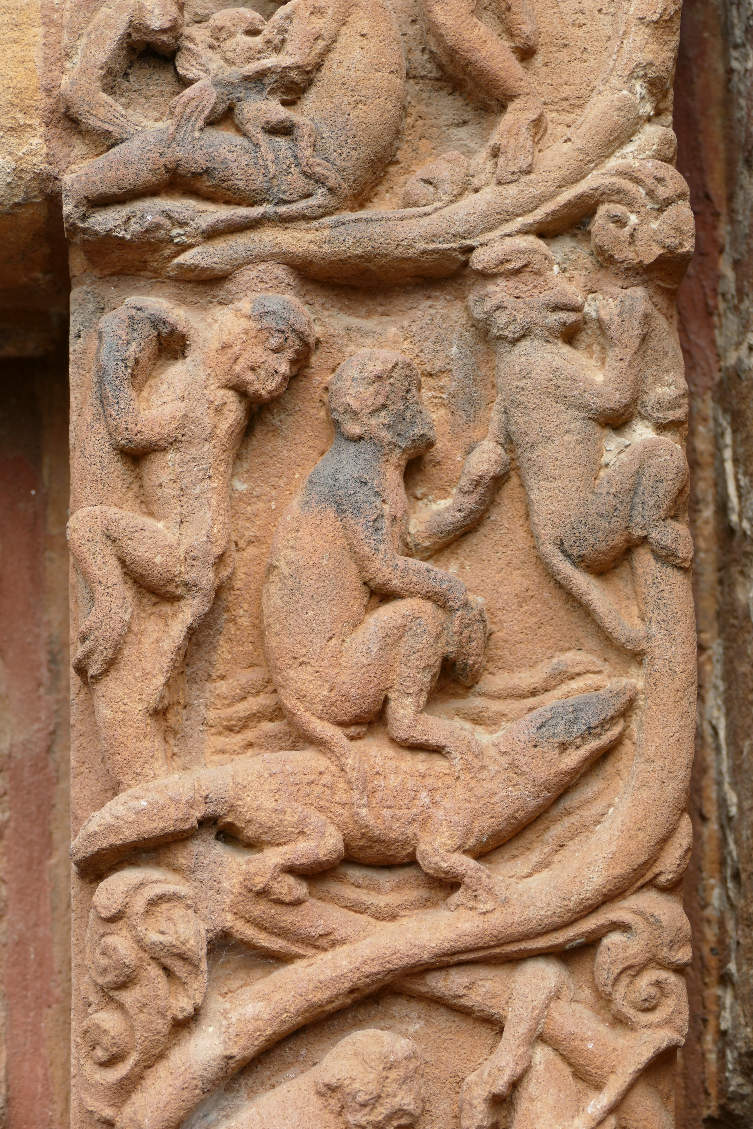 Scenes of the Panchatantra fable of the monkey and the crocodile at Mukteshvara Temple